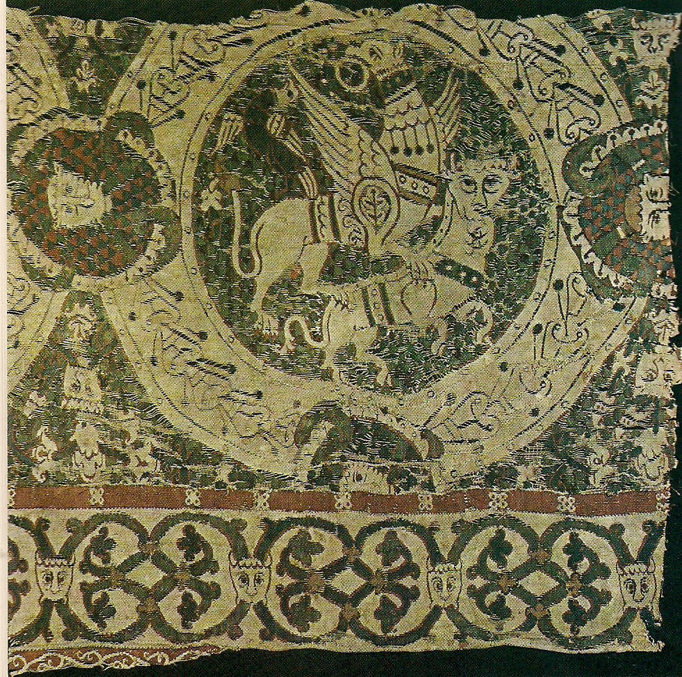 Cloth of Saint Gereon tapestry made about A.D. 1000